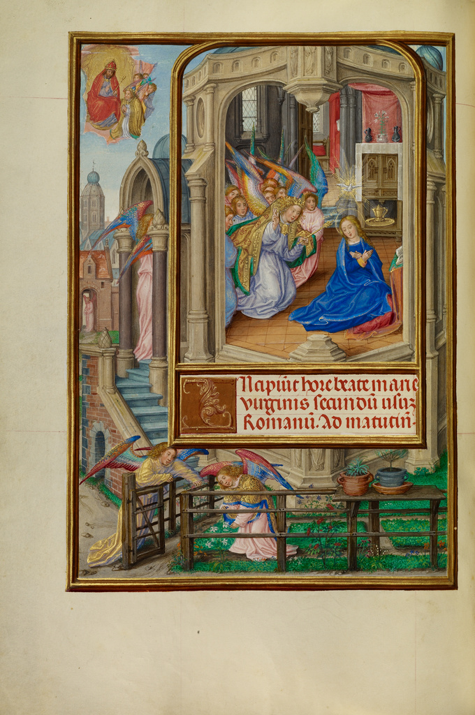 The Annunciation; Master of James IV of Scotland (Flemish, before 1465 - about 1541); Bruges, Belgium; about 1510 - 1520; Tempera colors, gold, and ink on parchment; Leaf: 23.2 x 16.7 cm (9 1/8 x 6 9/16 in.); Ms. Ludwig IX 18, fol. 92v